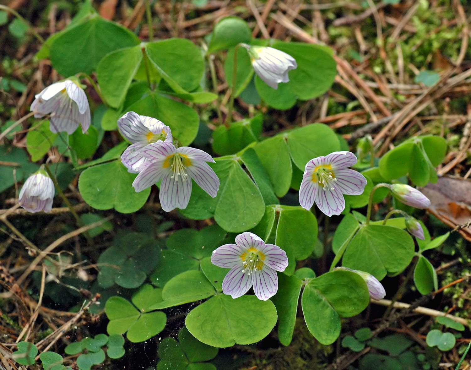 This image shows common wood sorrel (Oxalis acetosella).